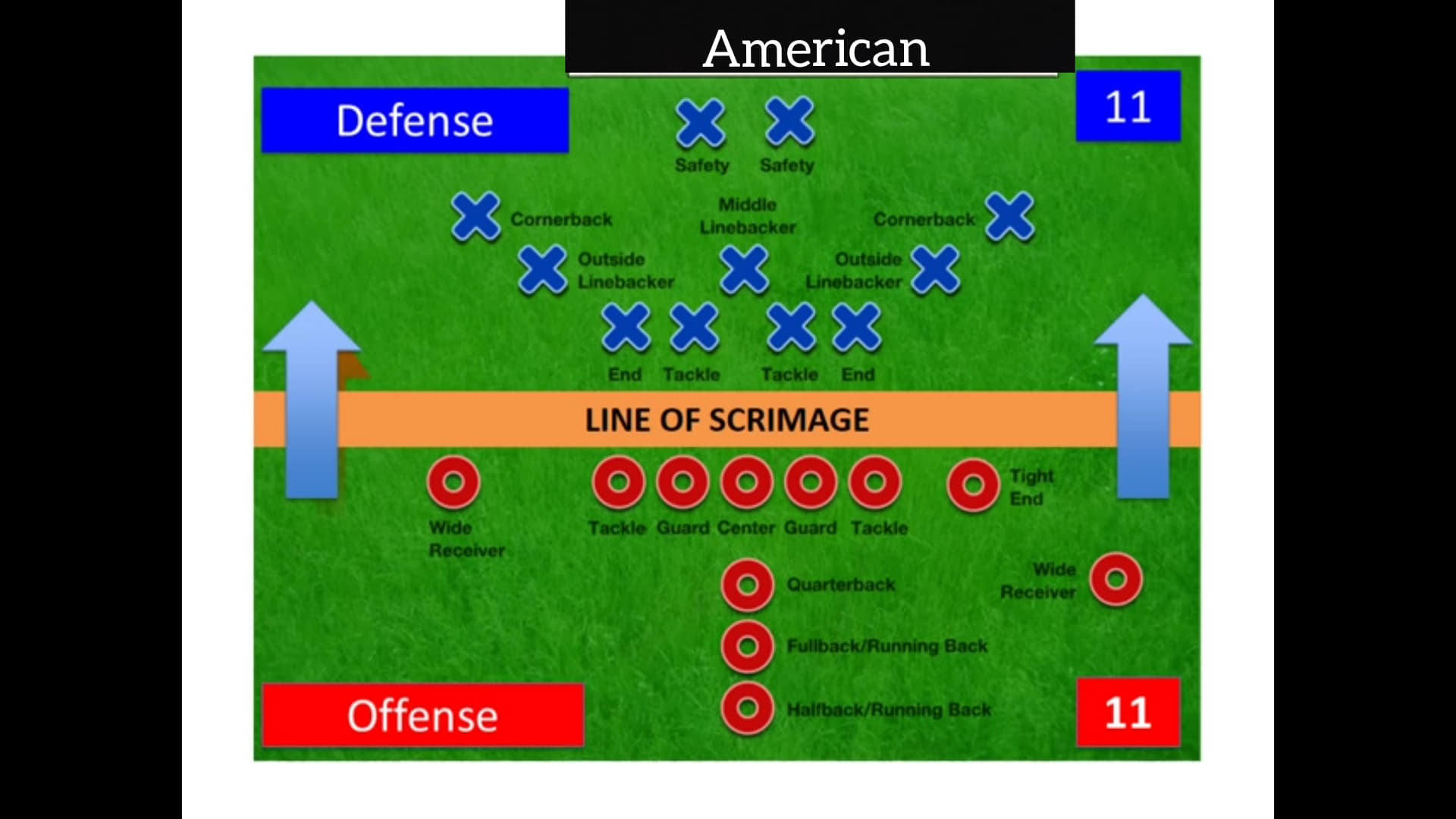 Positions correspond with official NFL rules.